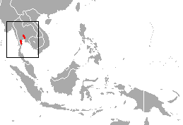 Thailand Roundleaf Bat (Hipposideros halophyllus) range